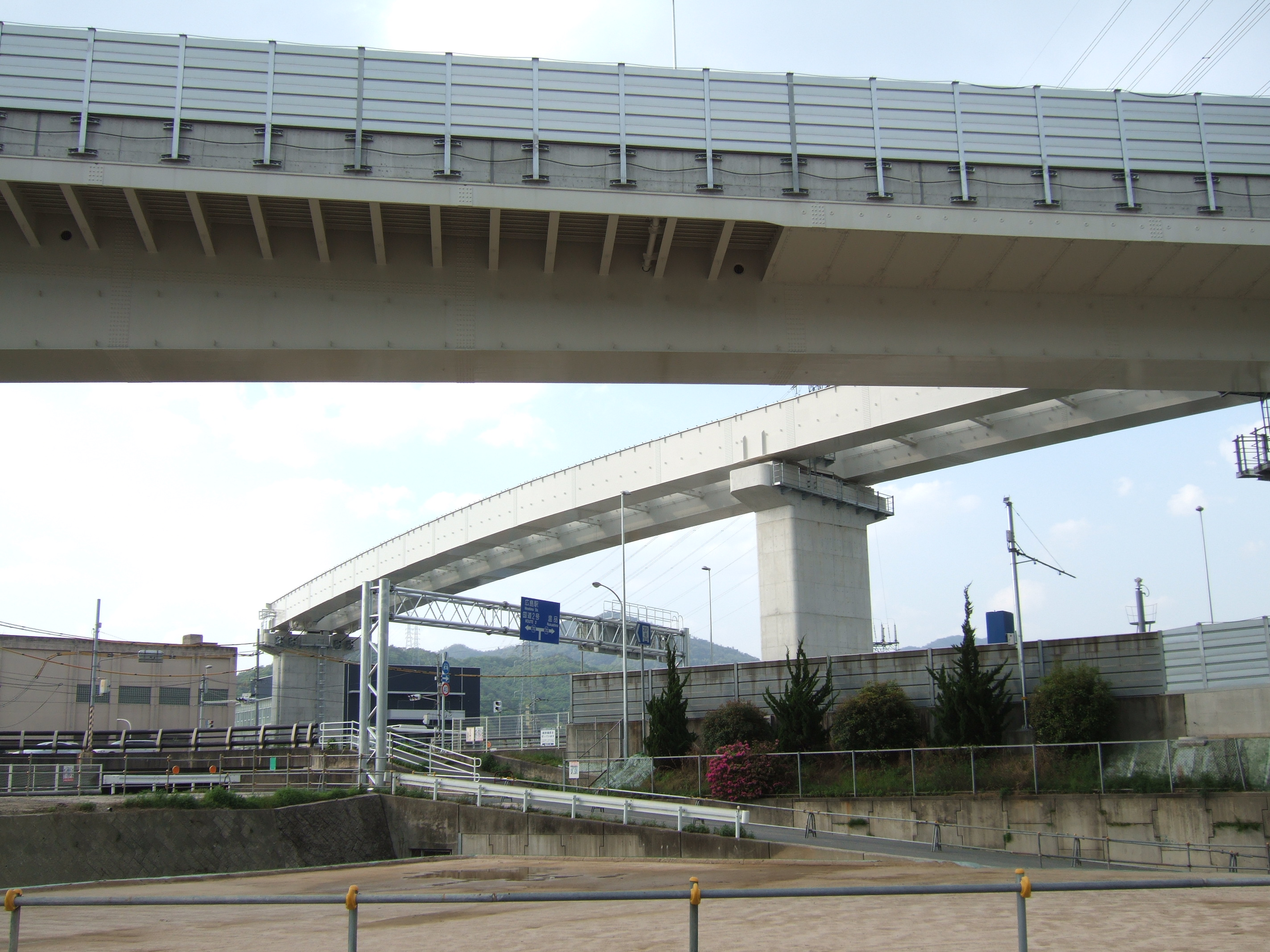 Nukushina Junction, Part connecting Hiroshima Expressway 1 with 5, Under Construction